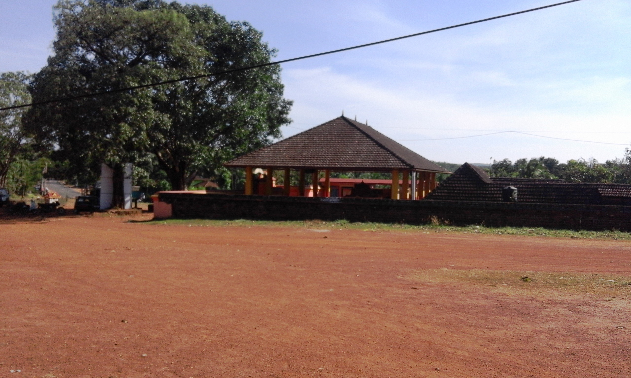 Alanalllur Ayyappa Temple